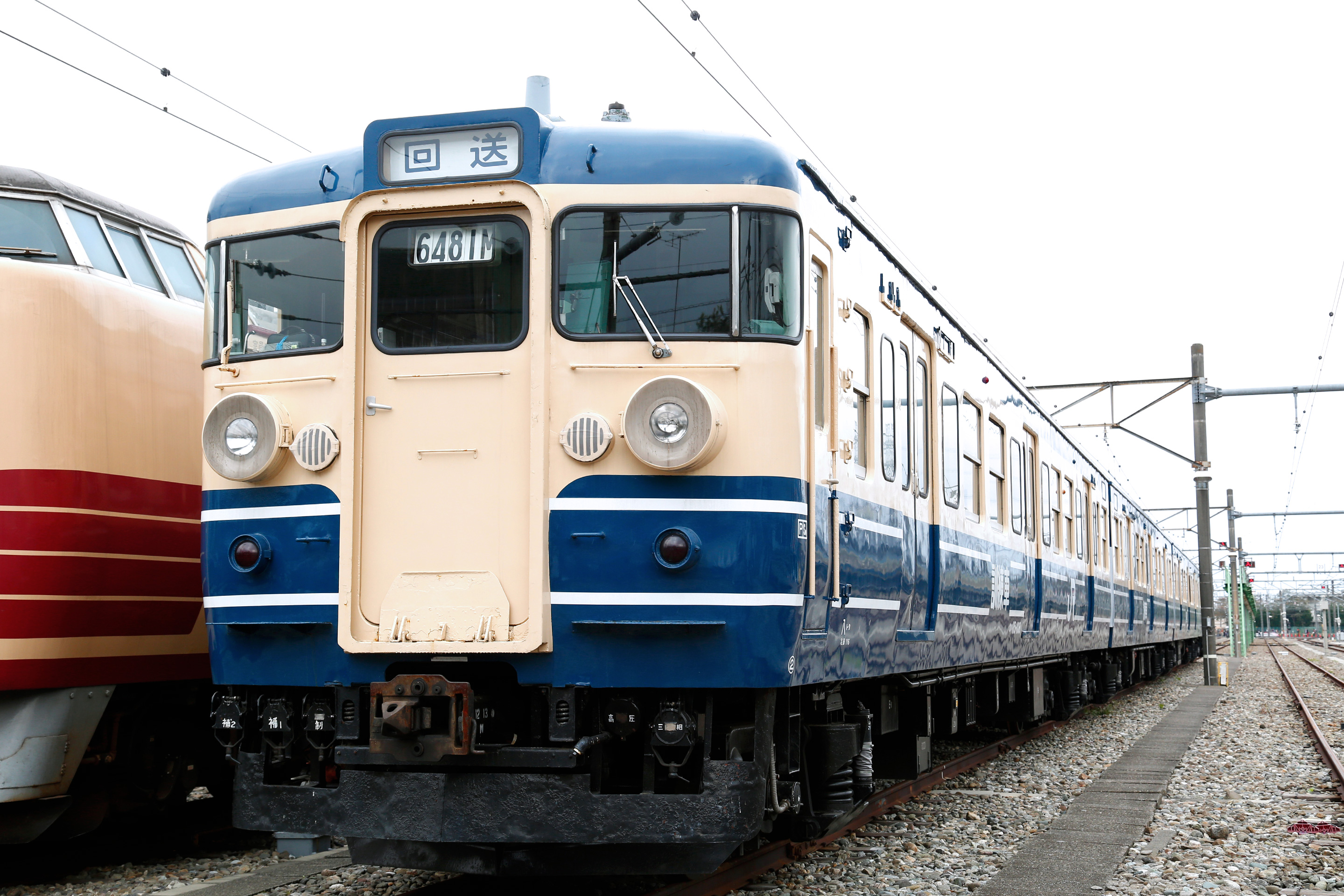 JR East 115 series EMU training set W2 at Toyoda Depot open day in Tokyo, Japan